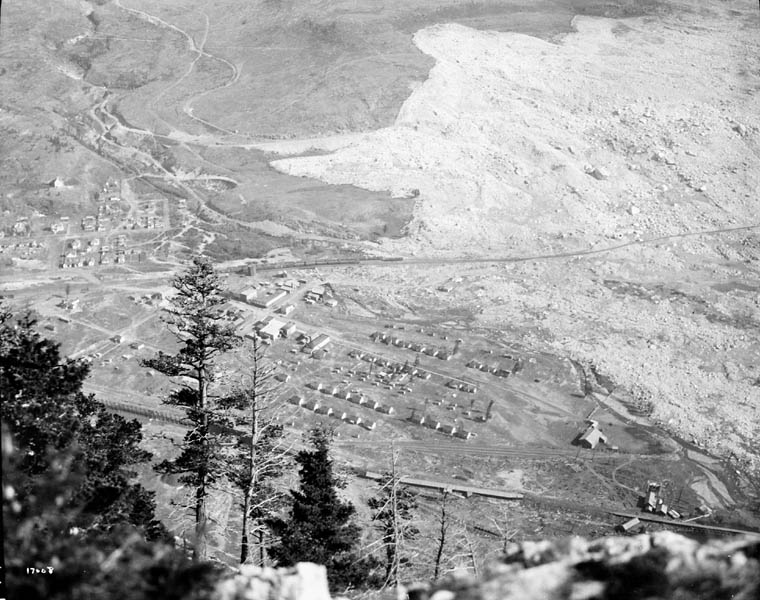 View from north shoulder of Turtle Mountain, showing the town of Frank and the north part of the Frank landslide of 1903.